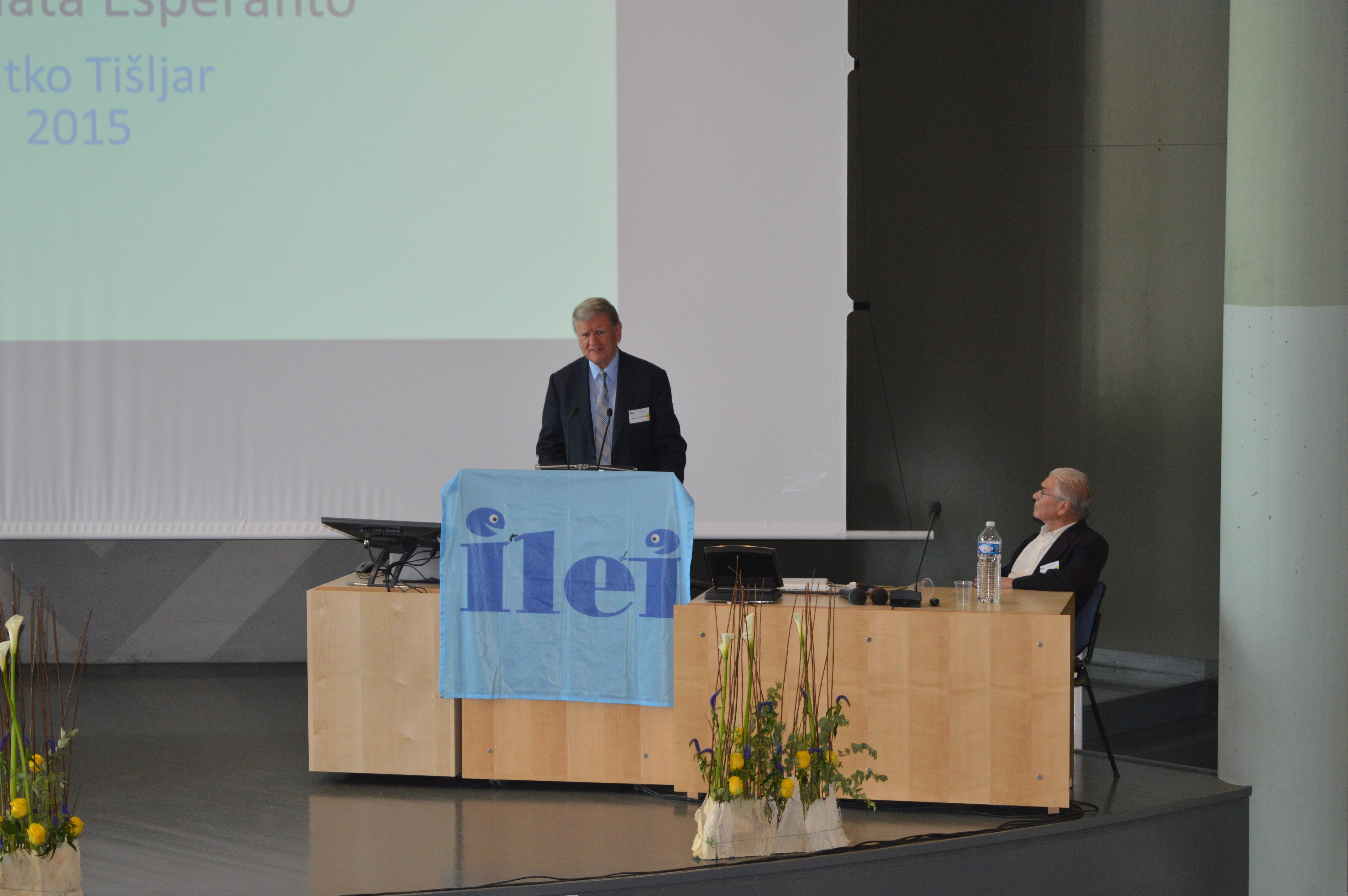 Zlatko Tišlar speaks during the third international conference on Esperanto teachting, canton of Neuchatel, SwitzerlandEsperanto: Zlatko Tiŝlar parolas dum la tria konferenco pri Esperanto-instruado, Neŭŝatelo, Svislando